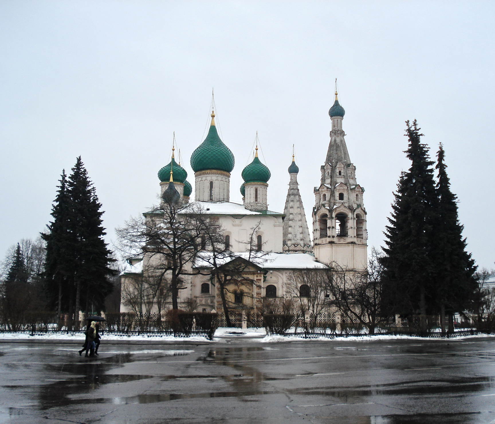 Church of Elijah the Prophet